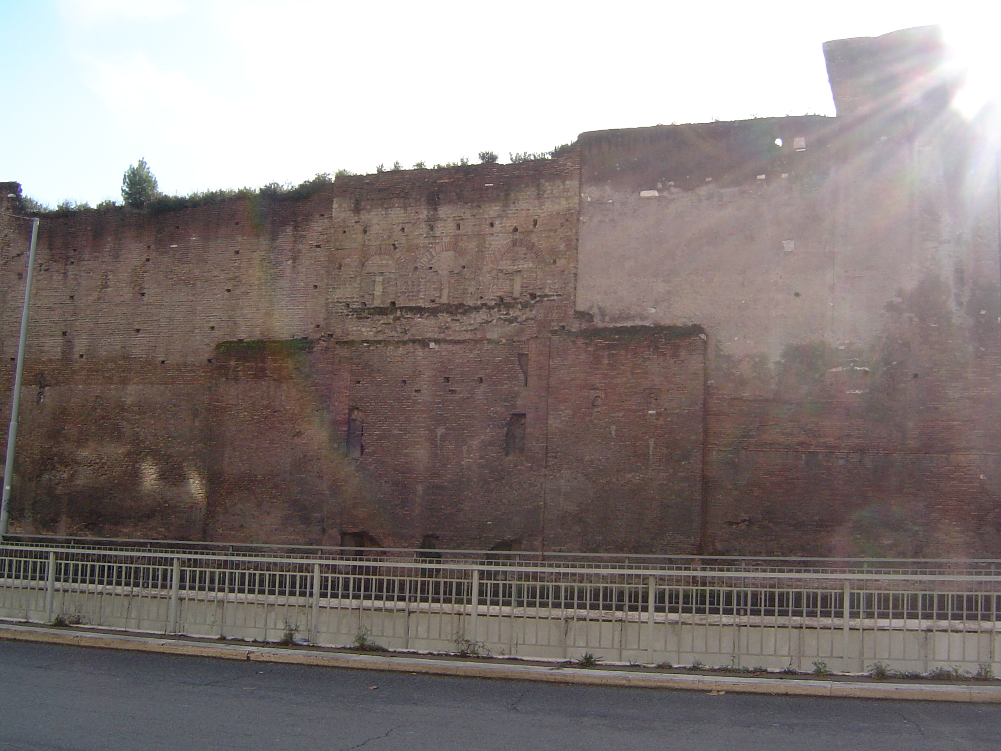 Porta Preatoriana. Closed gate in the walls of the Castra Praetoria, Rome, Italy Made by Joris van Rooden, The Netherlands on 02-01-2006